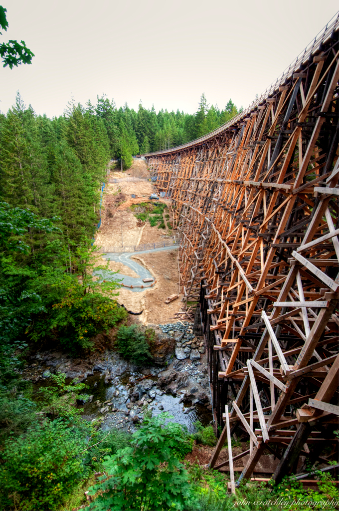 Recently re-opened it is 144 ft. high (44m) and 617 ft. long (188m) making it the highest bridge of its kind in the Commonwealth and one of the highest trestle bridges in the world today. Originally completed in 1920 it spans the Koksilah River on Vancouver Island.